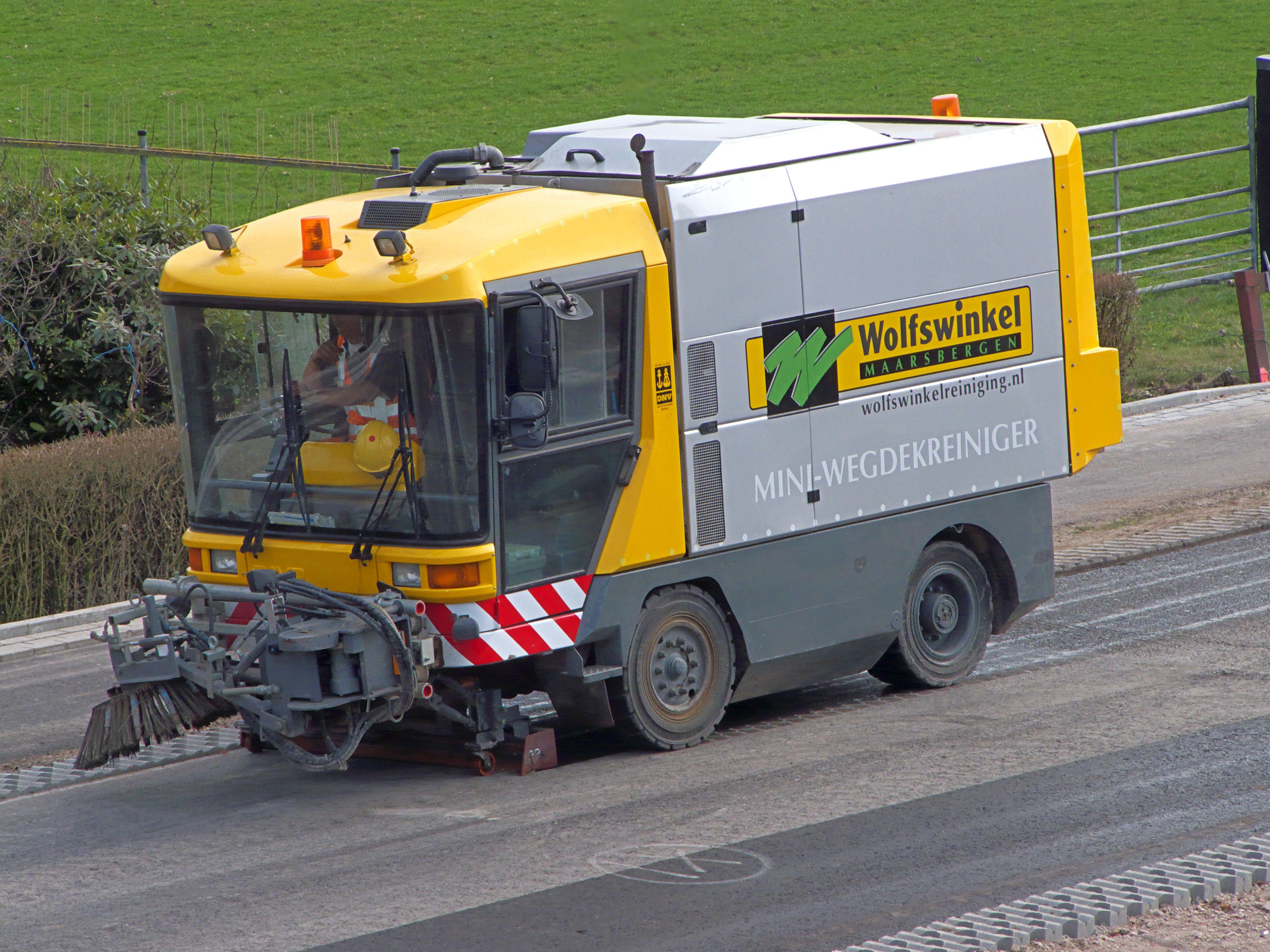 RAVO 5002 street sweeper vehicle